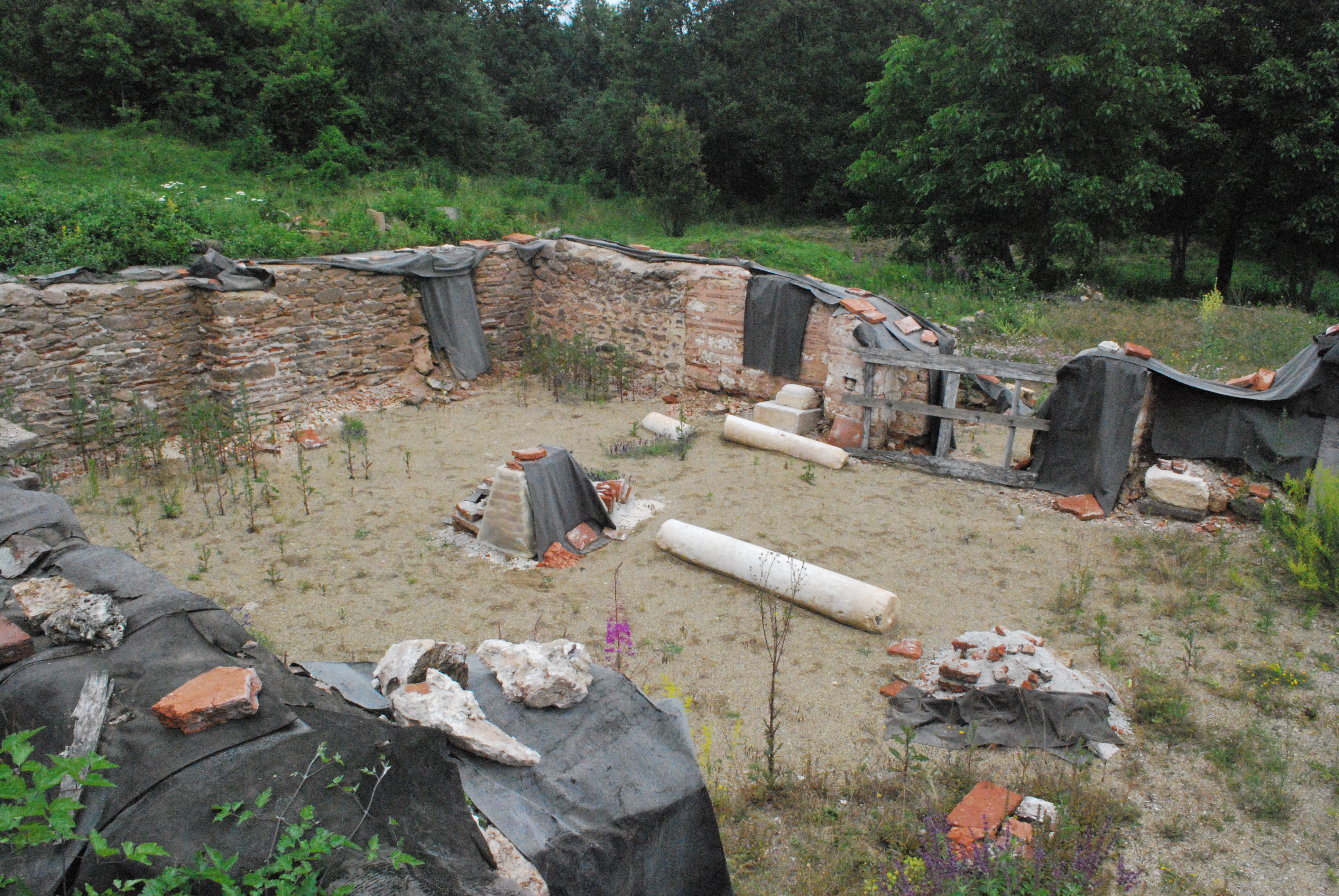 Archaeological site in Knežino Monastery near Kičevo village Knežino in Macedonia